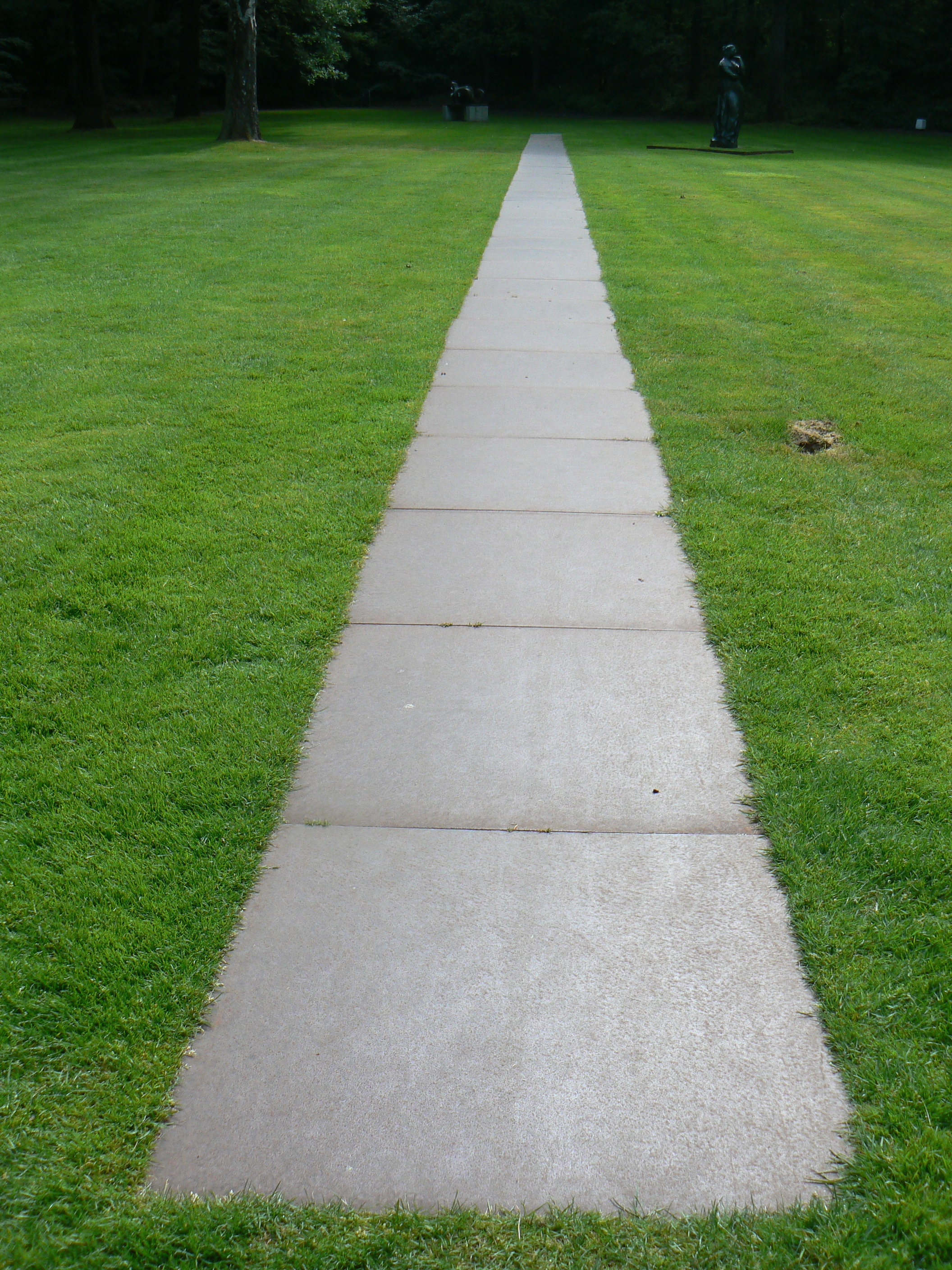 sculpture 43 Roaring forty (1968) by Carl Andre at KMM in Otterlo/The Netherlands